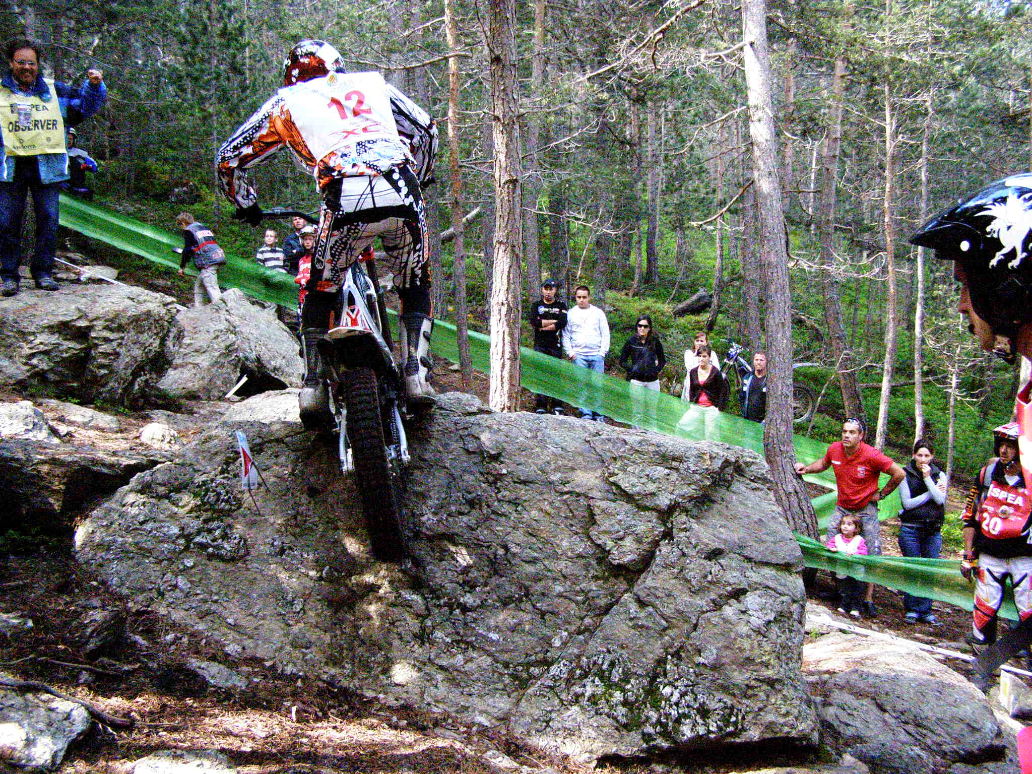 Ivan Peydró (Beta, Catalonia) in La Rabassa (Sant Julià de Lòria, Andorra), during the 2010 UEM Trial European Championship